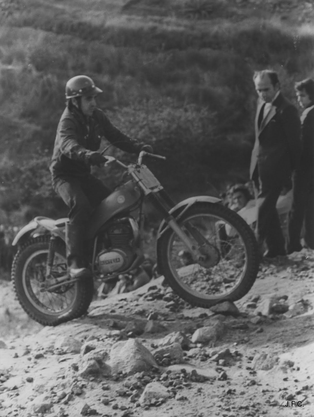 Joan Font on his Montesa Cota 123 at the 1974 Tres Dies dels Cingles de Trial, near from Sant Feliu de Codines (Catalonia), riding at the Curema area